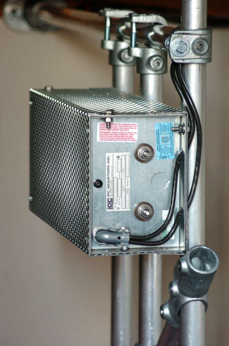 Turbine brake resistor (PWM dynamic braking system) Dynamic braking resistor for wind turbine. This 2kW resistor was manufactured by IPC resistors. It is mounted on size 6, schedule 40 structural aluminum pipes. These structural members are attached to the building's structural members by way of Alvin structural pipe fittings. view of the installation process of this resistor.